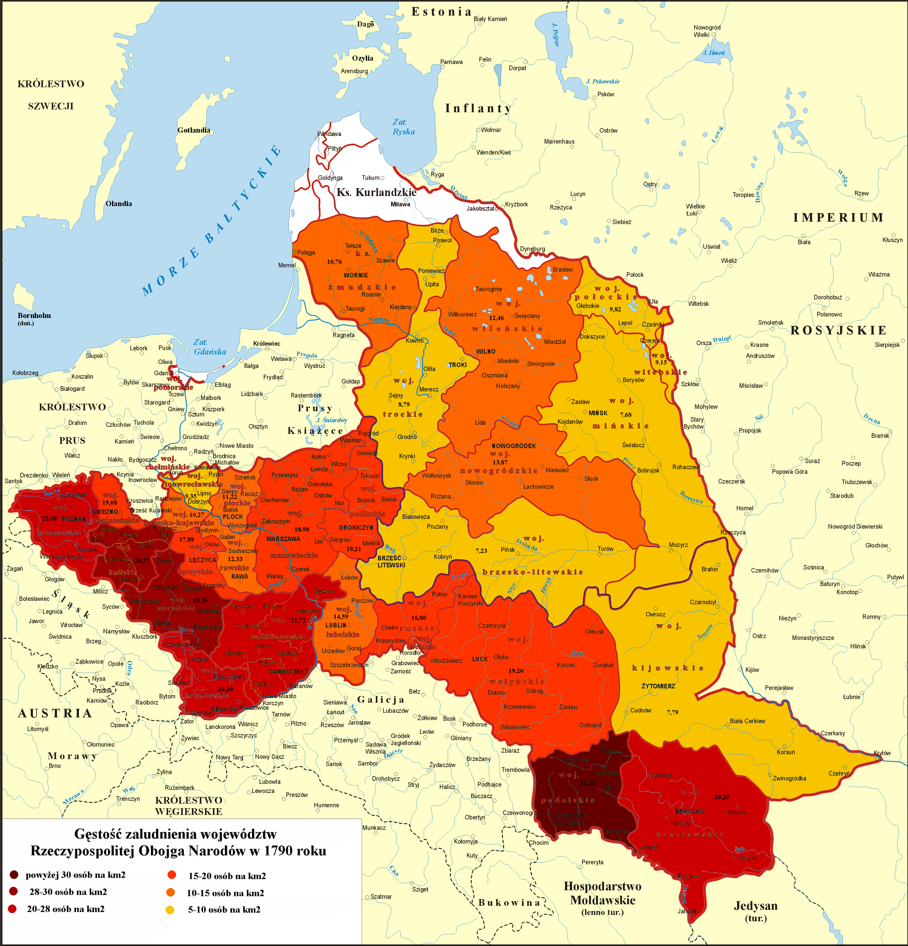 Population density per voivodeships in the Polish-Lithuanian Commonwealth in 1790